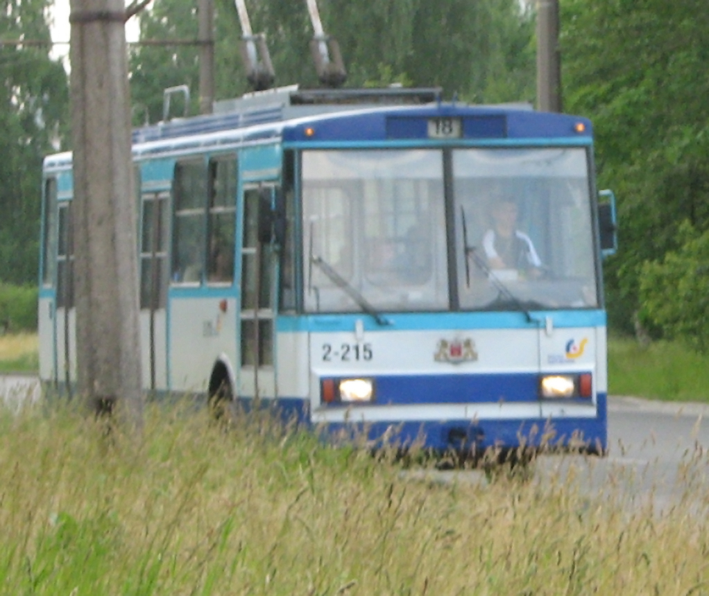 Trolleybus Nr. 18 in Riga